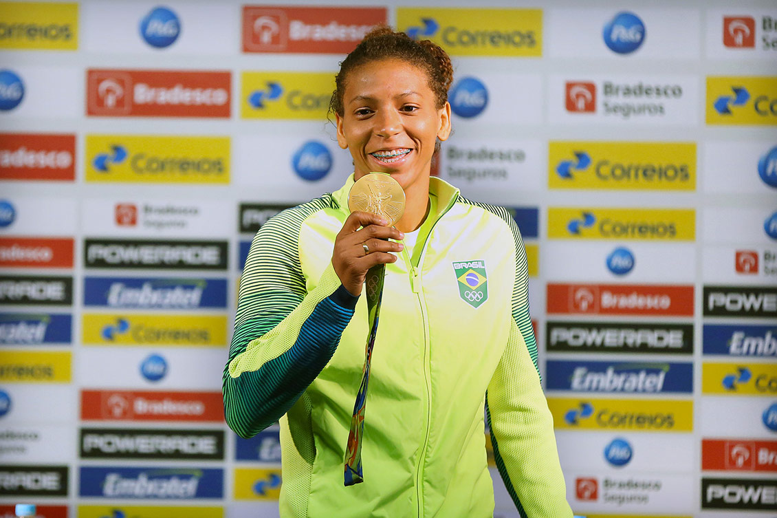 Rafaela Silva, owner of a gold medal of the Summer Olympic Games 2016 in Rio de Janeiro for a victory in competitions in judo.